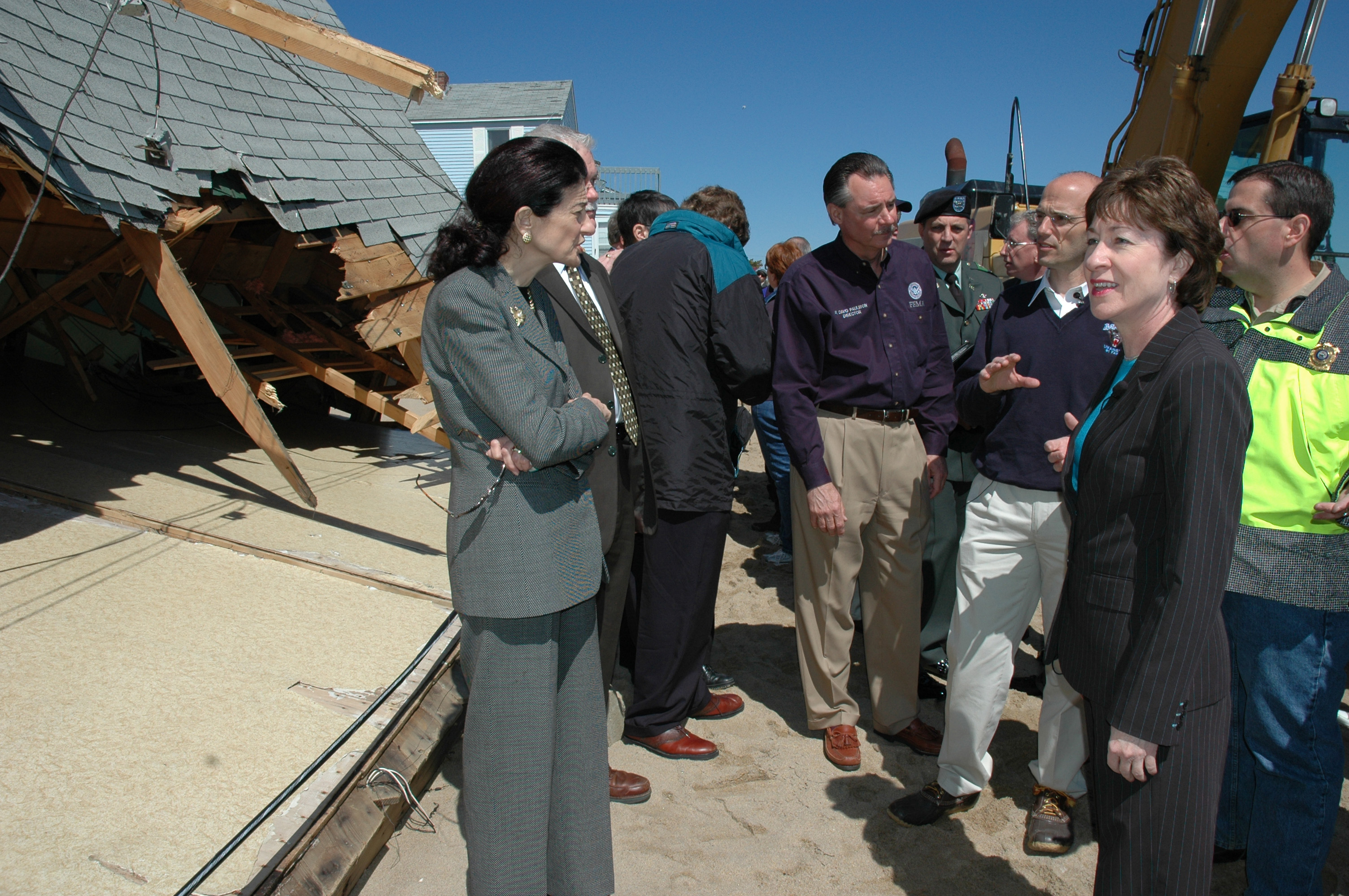 Saco, Maine, April 20, 2007 -- FEMA Administrator R. David Paulison toured damaged areas of Maine on Friday with Senator Olympia Snowe, Governor John Baldacci, and Senator Susan Collins. Paulison met with families that were affected by the Patriot?s Day storm and walked a neighborhood that suffered severe damage from repeated storm surges. Paulison also toured parts of New Hampshire and met Governor John Lynch and Senator John Sununu. Paulison?s tours on Friday were his first in the northeast and he is scheduled to visit New York and New Jersey next week. FEMA/Marty Bahamonde